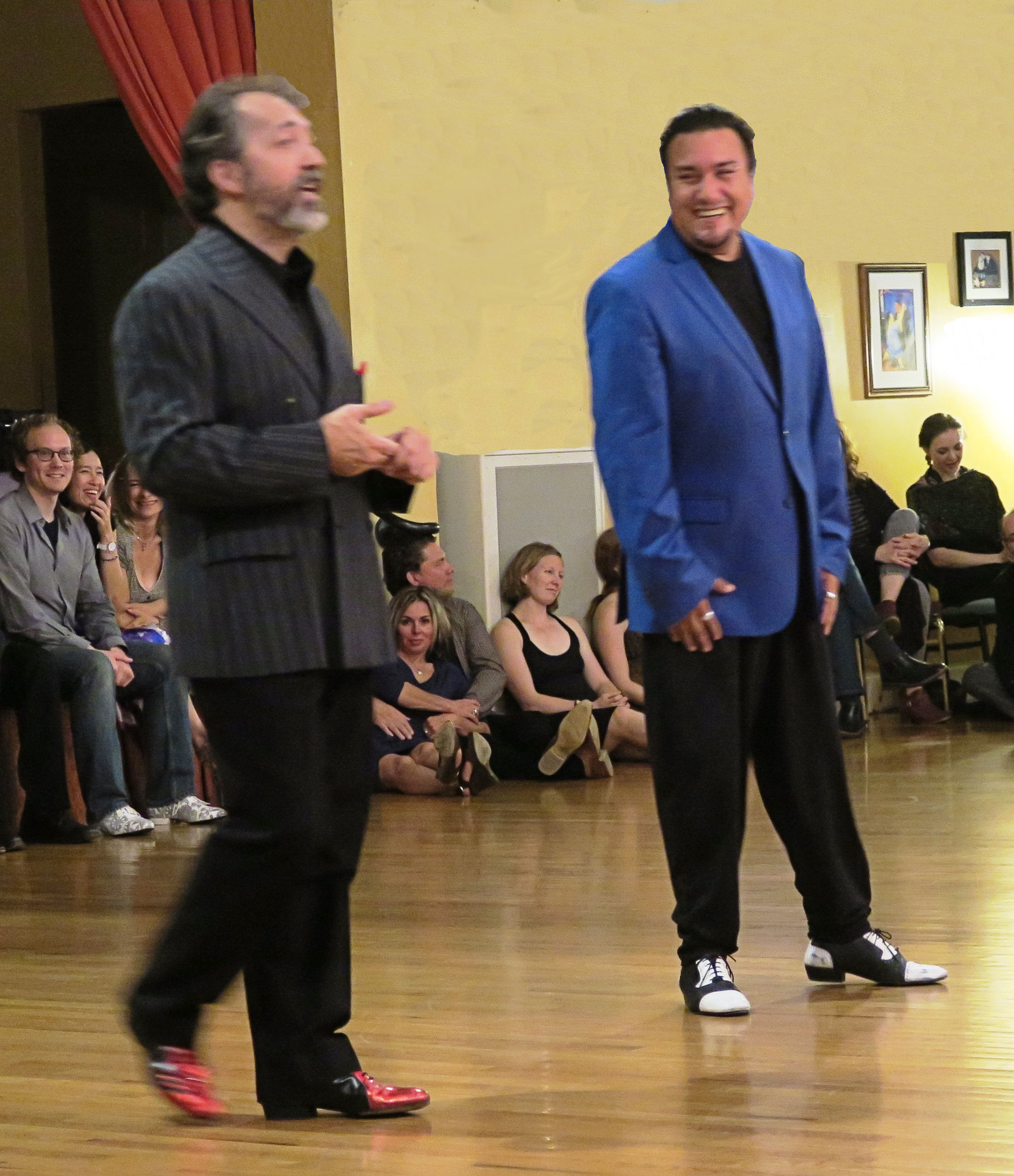 Gustavo Naveira and Chicho Frúmboli at the Boulder Tango Festival on October 1, 2016. Gustavo Naveira and Chicho Frúmboli are renowned dancers of the argentine tango.